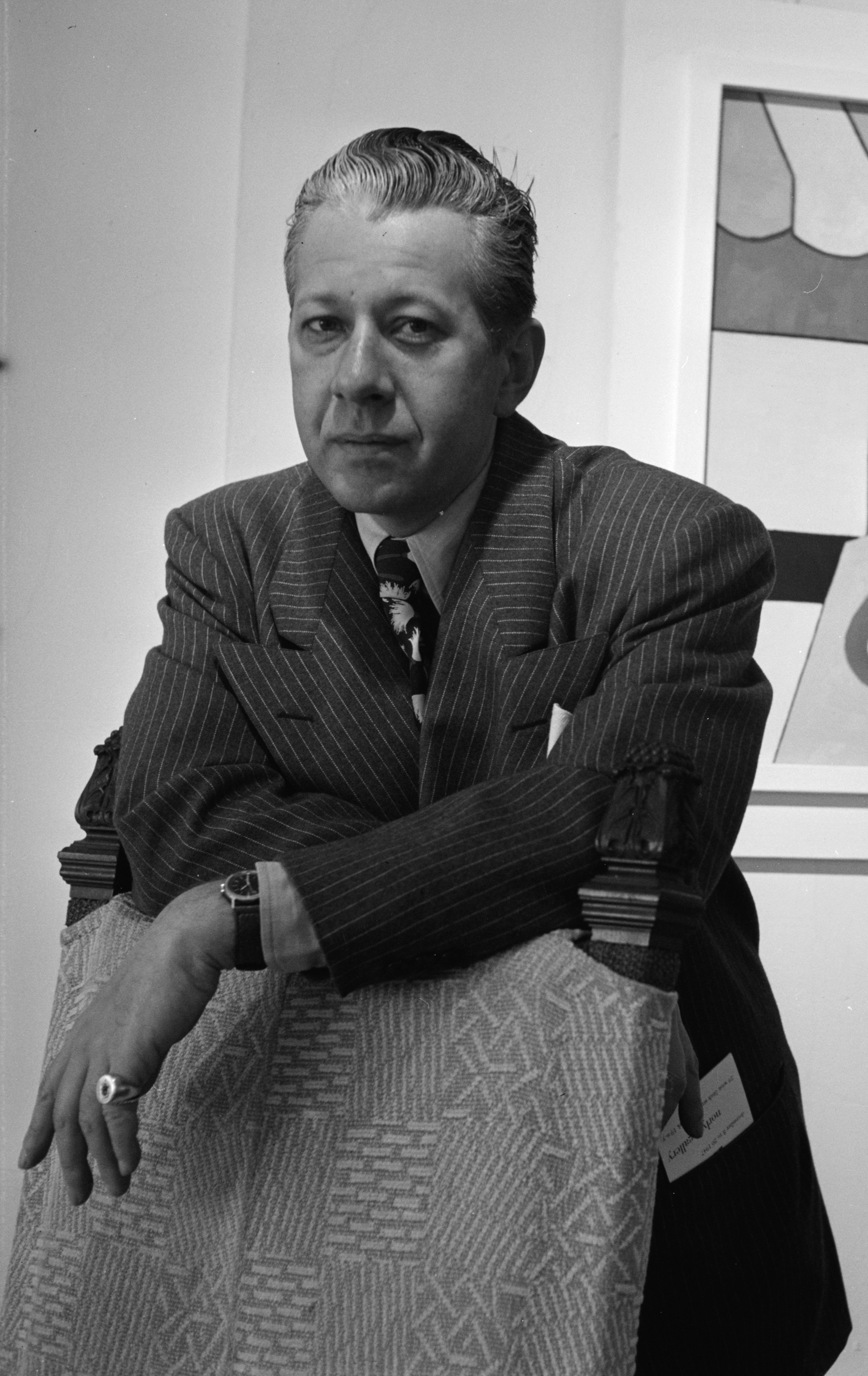 George Wettling (November 28, 1907 - June 6, 1968) was an American jazz drummer. Gottlieb, William P., 1917-, photographer. [Portrait of George Wettling, New York, N.Y., between 1946 and 1948] 1 negative : b&w ; 2 1/4 x 2 1/4 in. Notes: Gottlieb Collection Assignment No. 333 Reference print available in Music Division, Library of Congress. Purchase William P. Gottlieb Forms part of: William P. Gottlieb Collection (Library of Congress). Subjects: Wettling, George, 1907-1968 Jazz musicians--1940-1950. Drummers (Musicians)--1940-1950. Format: Portrait photographs--1940-1950. Film negatives--1940-1950. Rights Info: Mr. Gottlieb has dedicated these works to the public domain, but rights of privacy and publicity may apply. Repository: (negative) Library of Congress, Prints & Photographs Division, Washington D.C. 20540 USA, (reference print) Library of Congress, Music Division, Washington D.C. 20540 USA, Part Of: William P. Gottlieb Collection (DLC) 99-401005 General information about the Gottlieb Collection is available at Persistent URL: Call Number: LC-GLB23- 0906